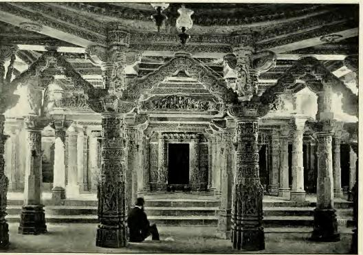 Inner Hall of the main Temple at Mt. Abu (ca. 1898)